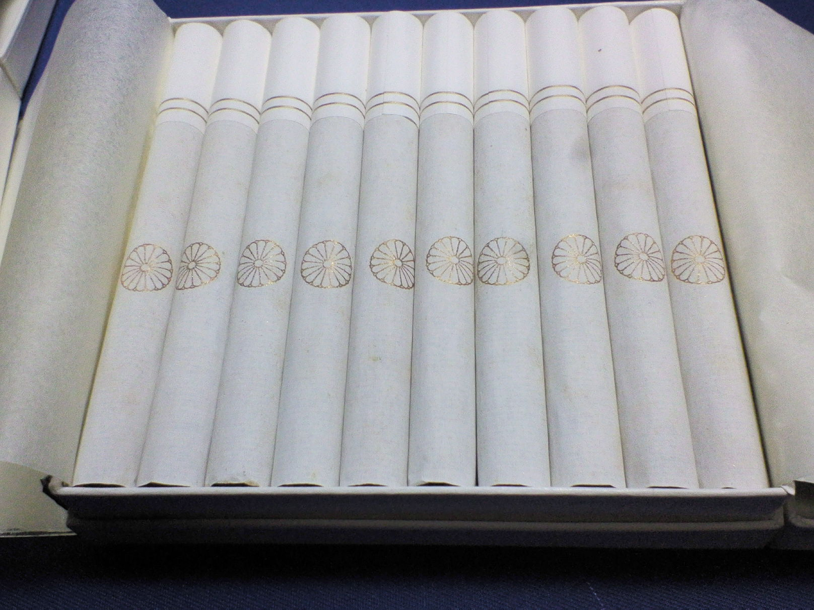 Japanese Imperial Tobacco .